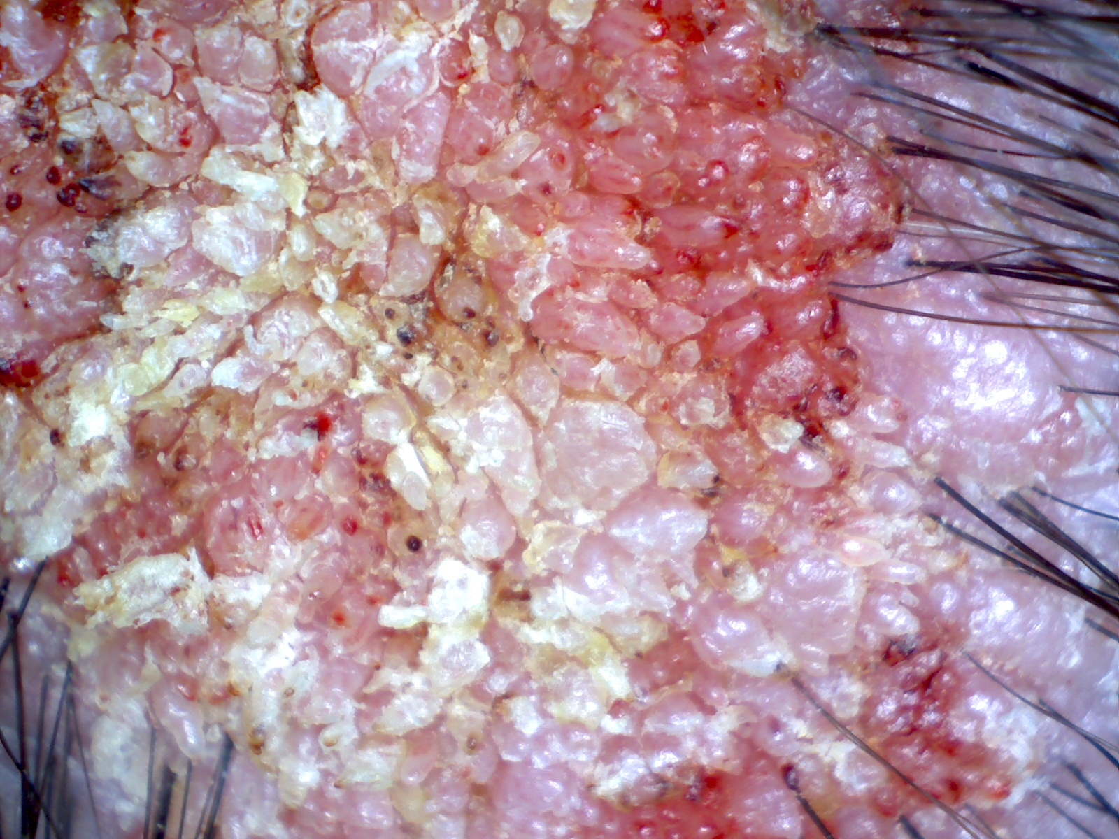 Taken with a Celestron digital microscope, this image shows a magnified nevus sebaceous spot on the scalp.